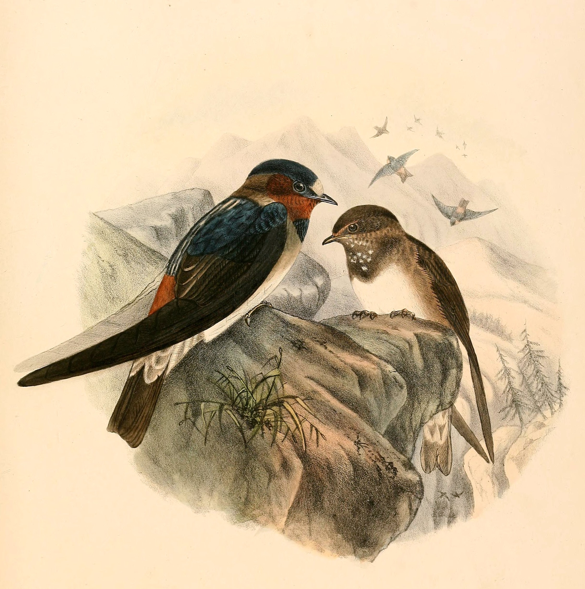 « Petrochelidon pyrrhonota » = Petrochelidon pyrrhonota (American Cliff Swallow)